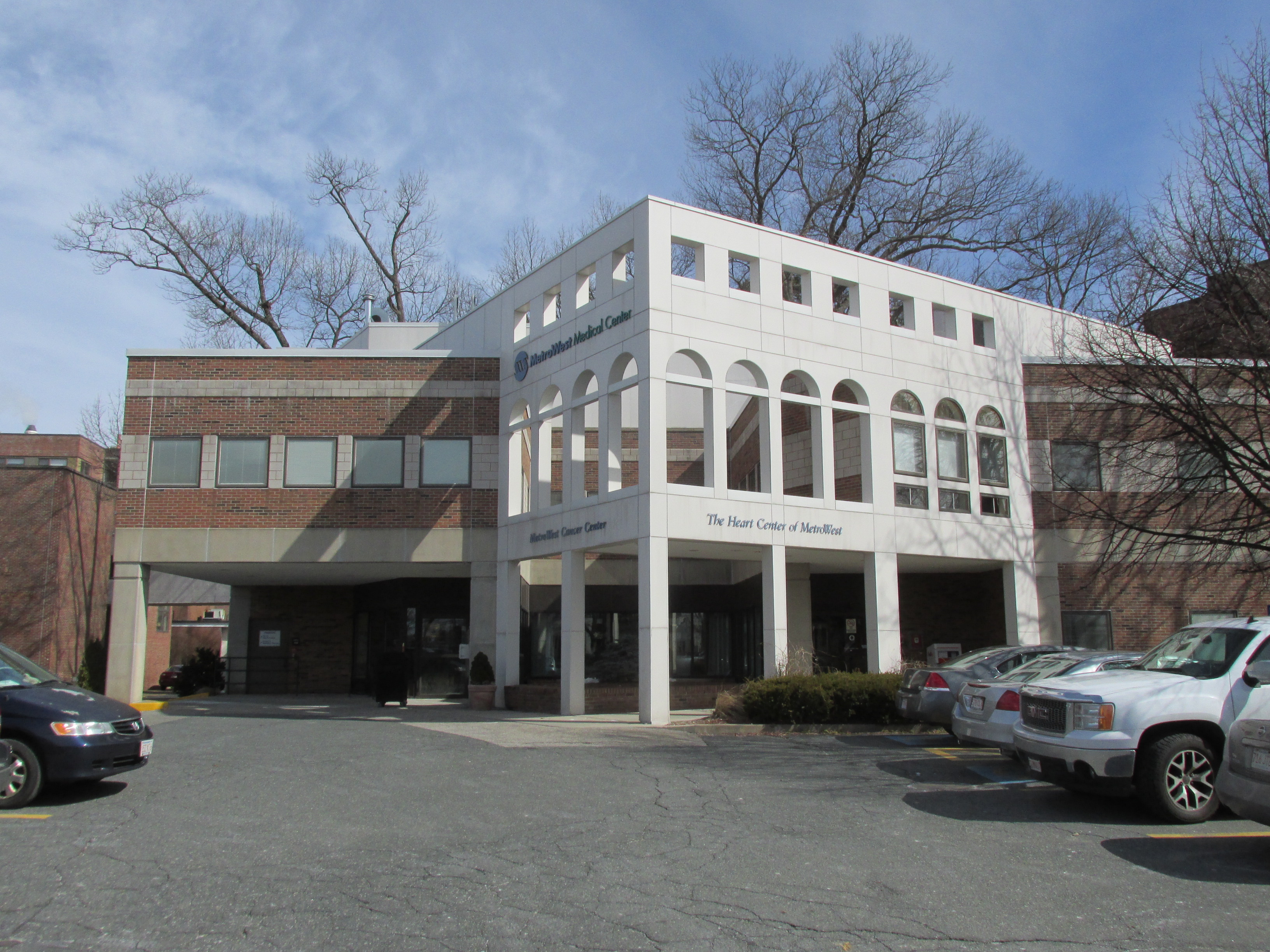 MetroWest Cancer Center, Framingham Massachusetts - 2014